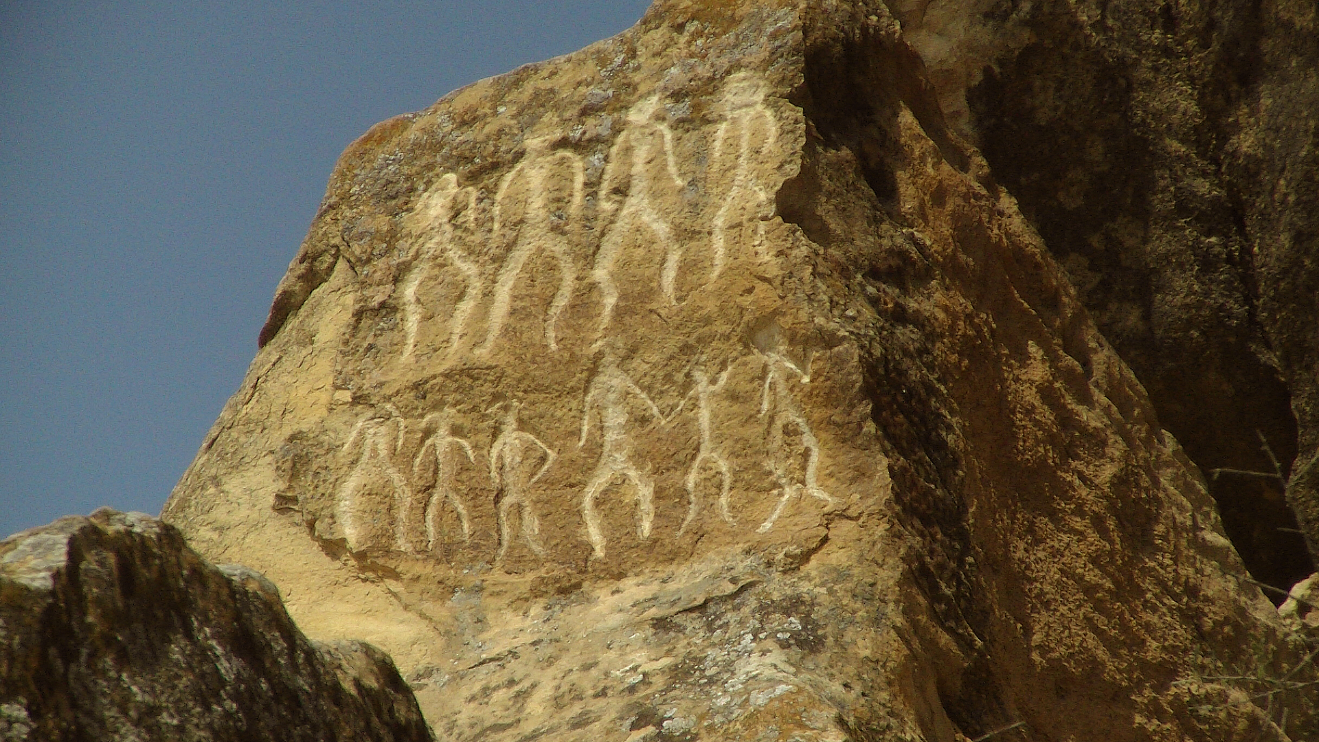 Petroglyphs in the National Park Gobustan in Azerbaijan. These ancient rock carvings date back to 10,000 BC and they indicate a thriving culture. It is a UNESCO World Heritage Site considered to be of "outstanding universal value".